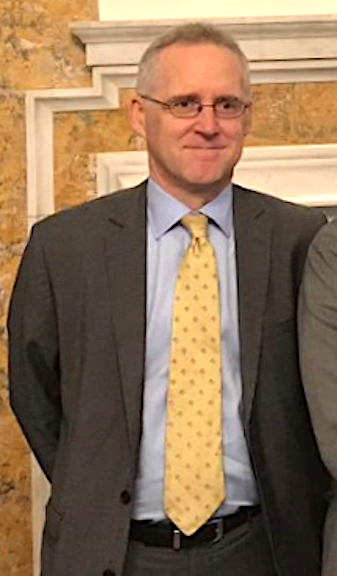 Michael Tatham at a 2018 meeting on Capitol Hill (Washington, DC) between political commentators and Northern Ireland's secretary of state, to discuss the UK-US special relationship and an update on UK priorities for Northern Ireland.